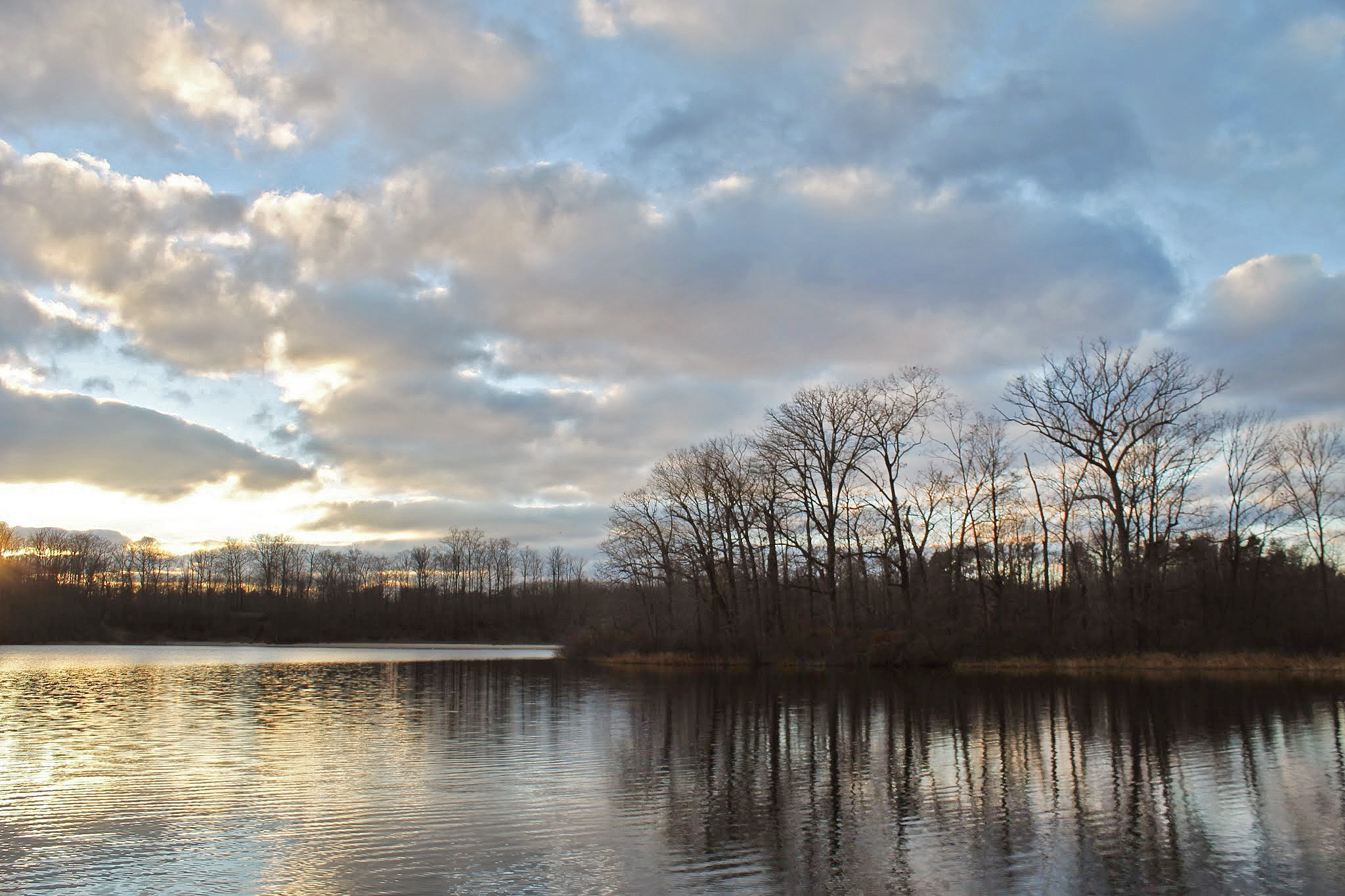 Jennifer took this image of the sun setting at Punderson Manor State Park located in Newbury, Ohio.